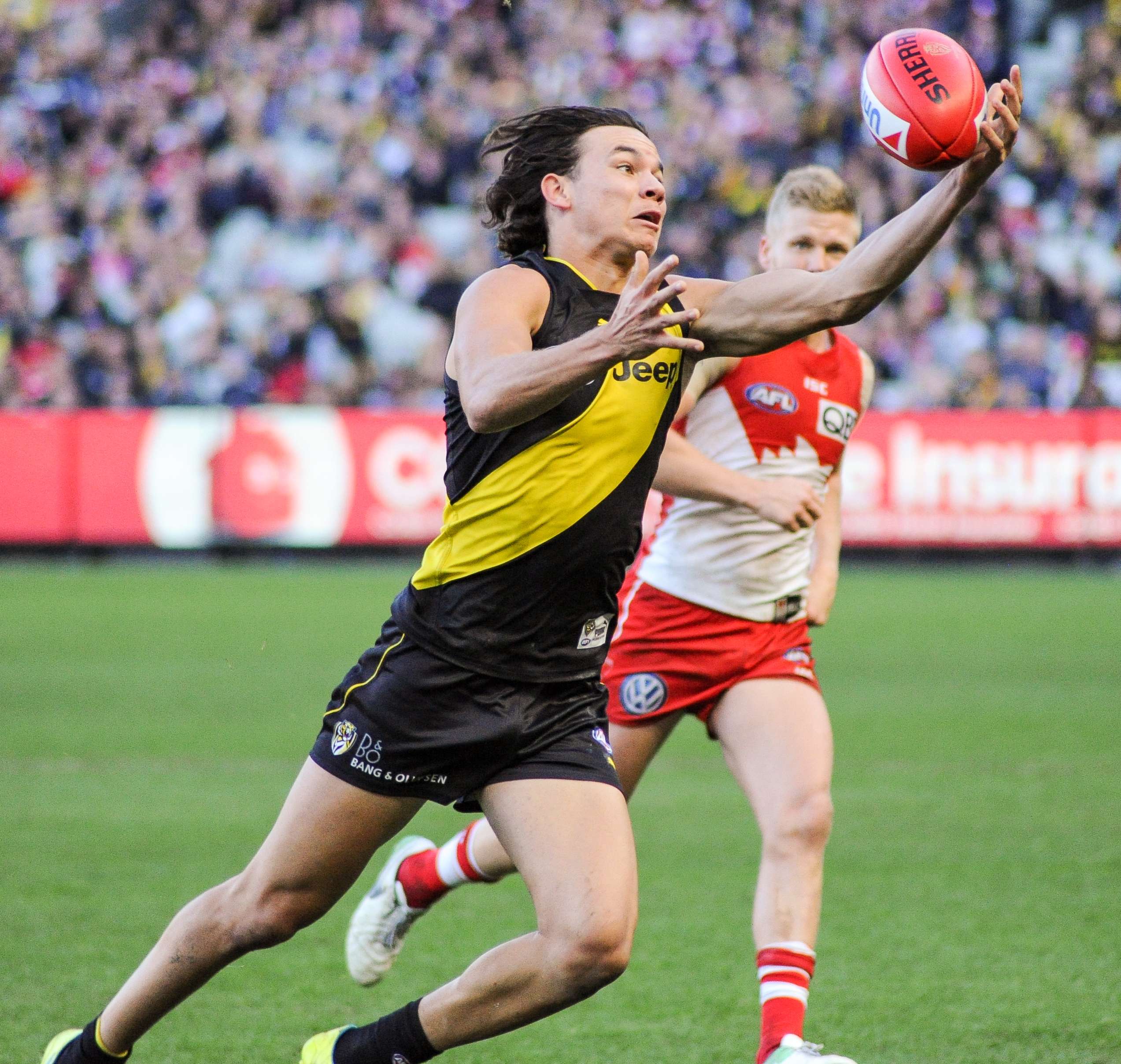 Daniel Rioli marking attempt during the AFL round thirteen match between Richmond and Sydney on 17 June 2017 at the Melbourne Cricket Ground in Melbourne, Victoria.